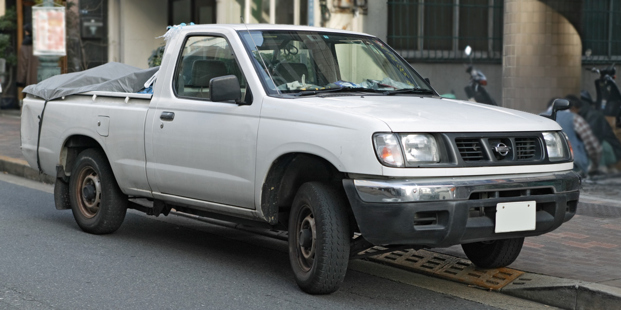 Image:Nissan Datsun truck ( D22 ), Japan spec.